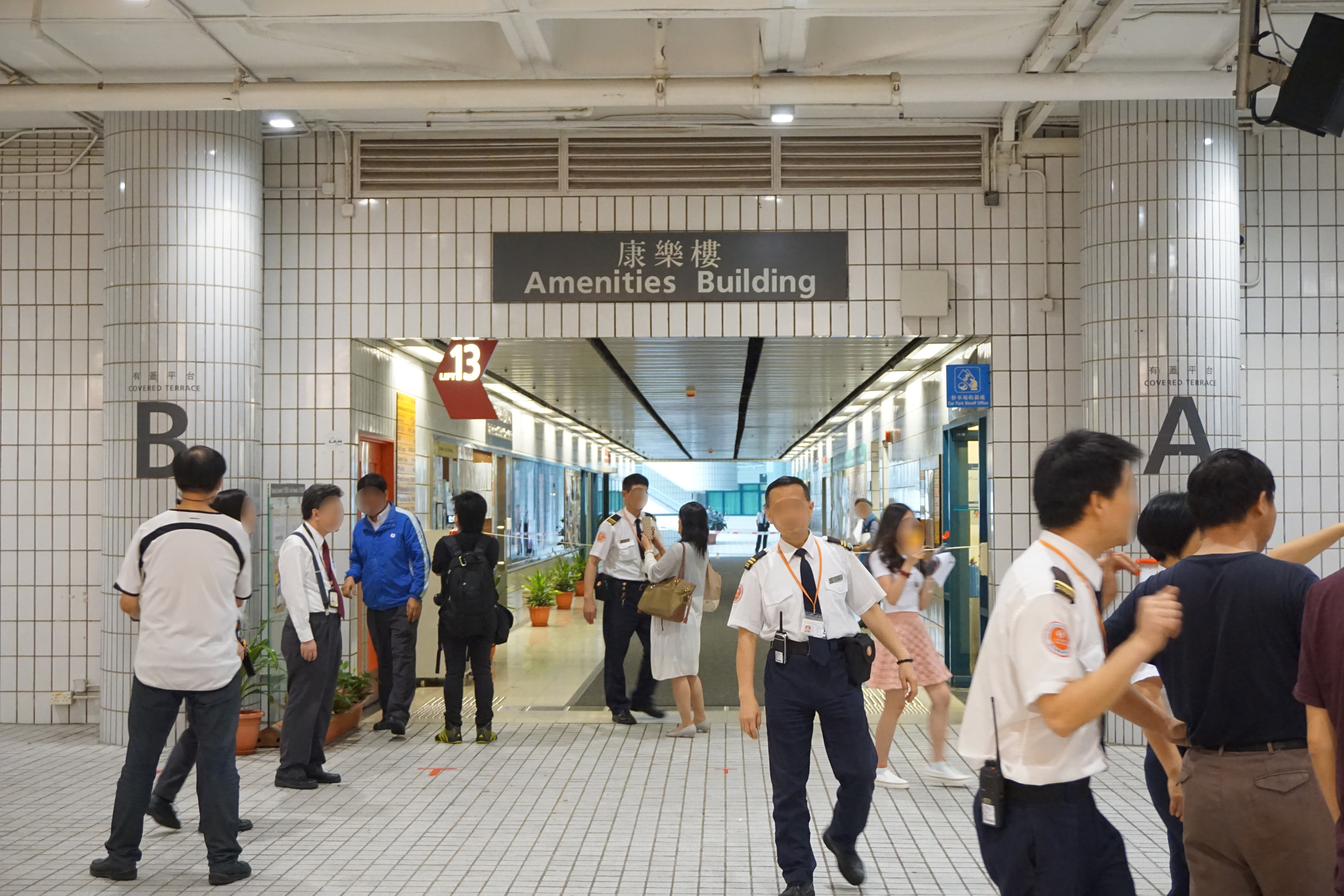 City University in Kowloon Tong, Hong Kong.